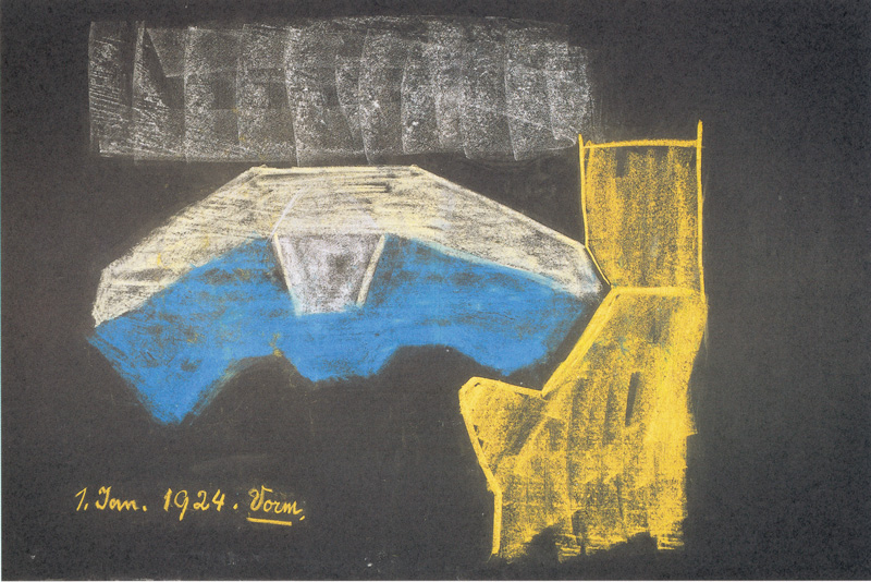 Blackboard-drawing showing the idee for the second Goetheanum (1st january 1924)